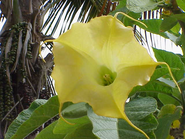 Species: Brugmansia aurea Family: Solanaceae Image No. 2